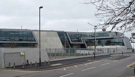 Evelyn Grace Academy, Shakespeare Road, London, England.